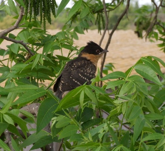 Clamator glandarius, Great Spotted Cuckoo